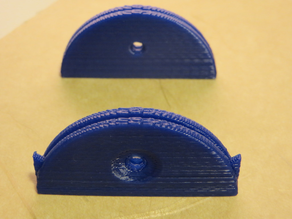 A 3-D-printed shepherd's whistle. The whistle is used to communicate to working dogs at a distance; it can be more traditionally made from a piece of folded metal.